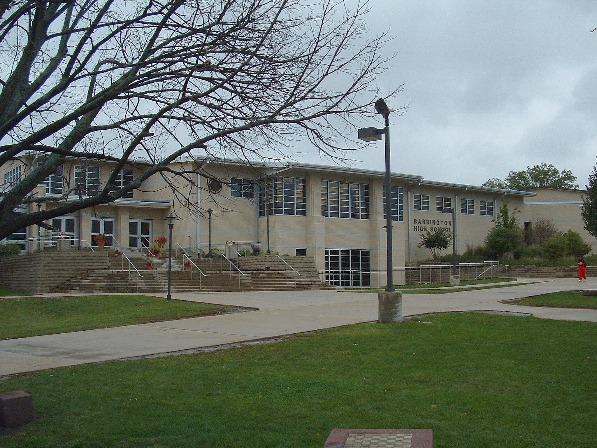 Photo of Barrington High School main entrance on West Main Street, Barrington, Illinois